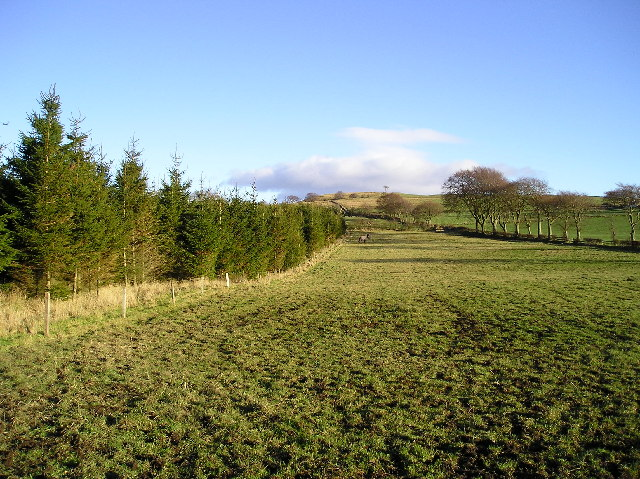 Muirdykes Mount. Muirdykes Mount is the hill on the skyline, viewed across fields at Muirdykes Farm.